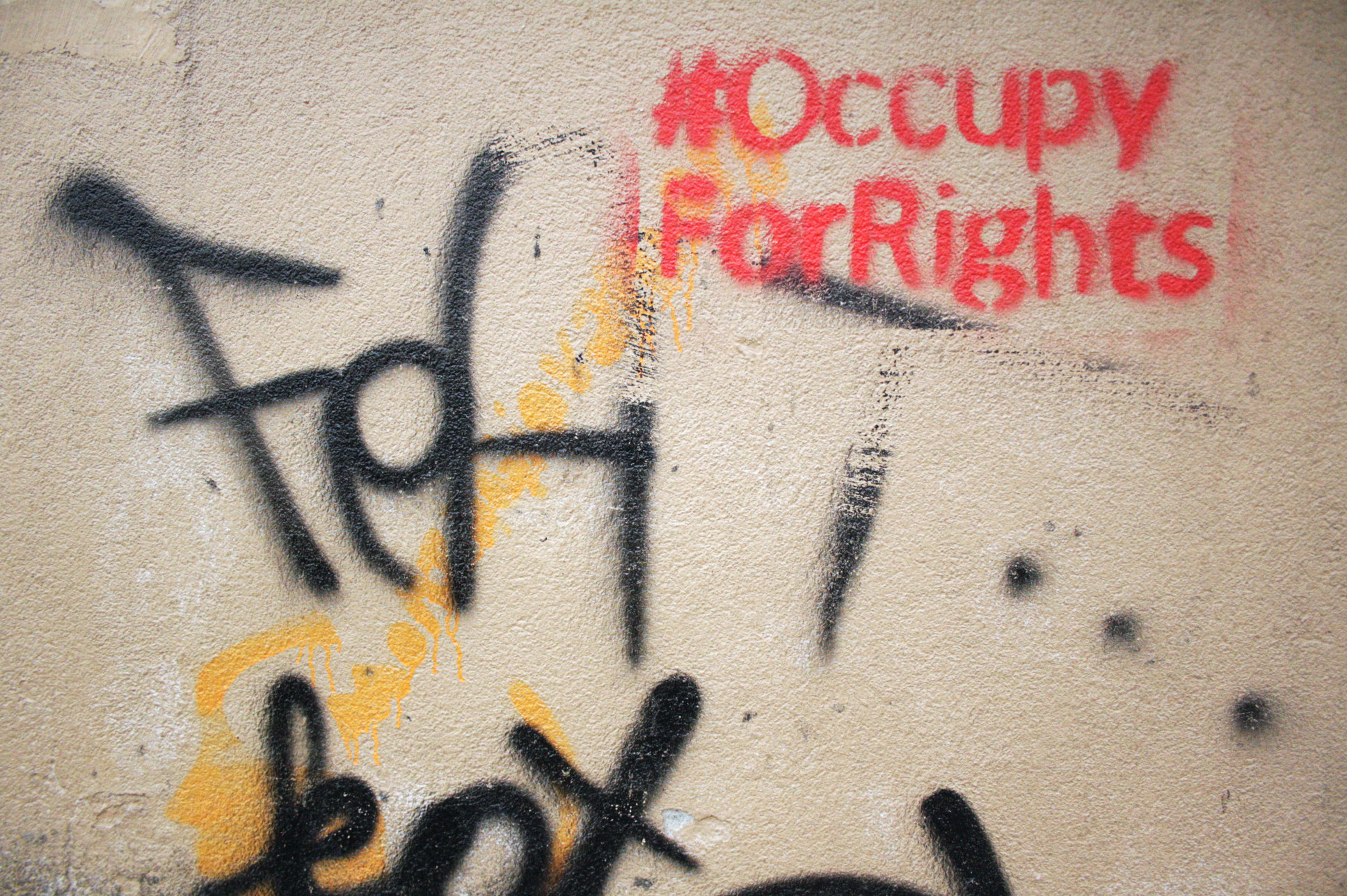 Political graffiti with hashtag on a public wall in Italy. «#Occupy for rights»